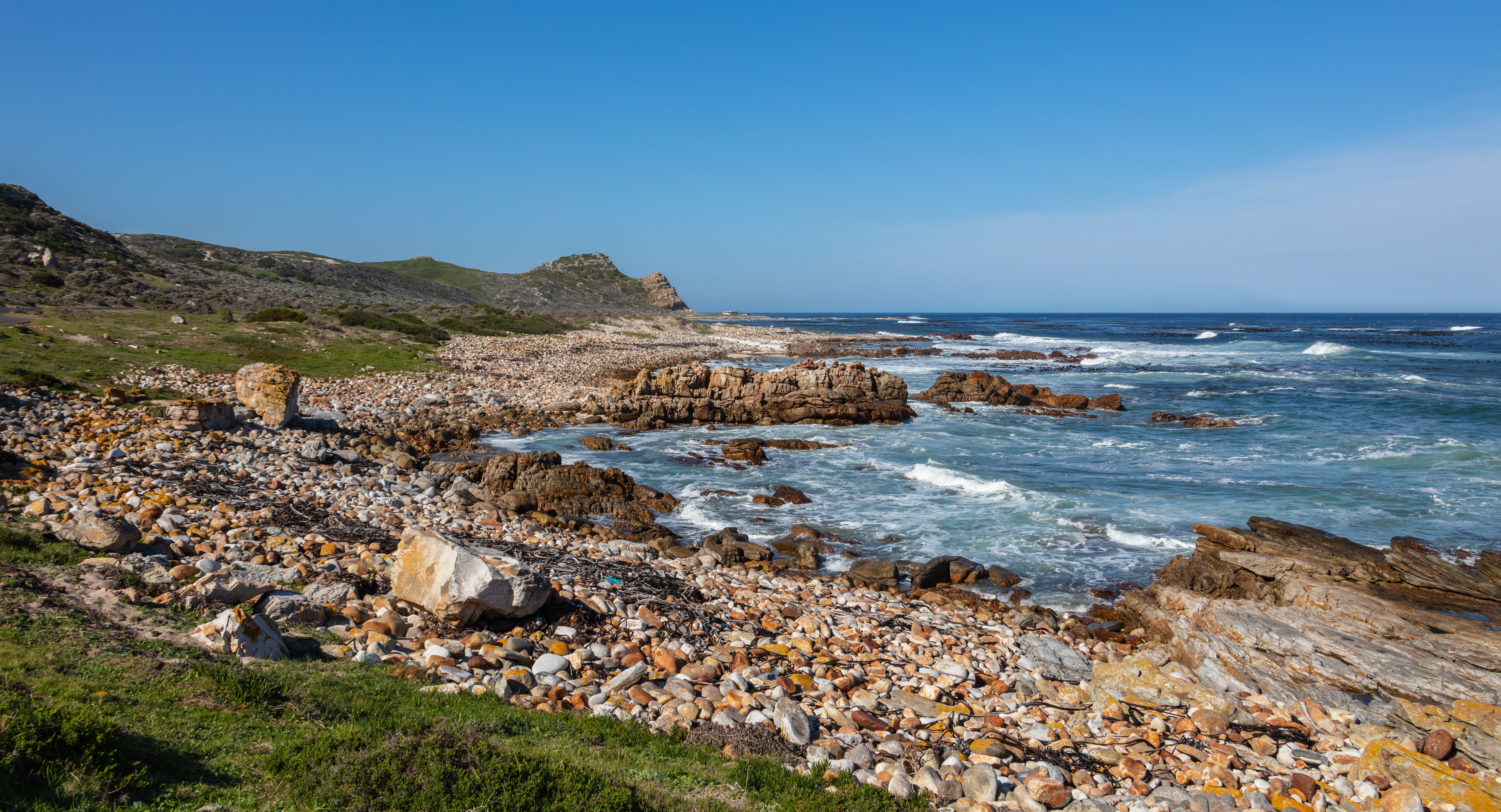 Cape of Good Hope, South Africa